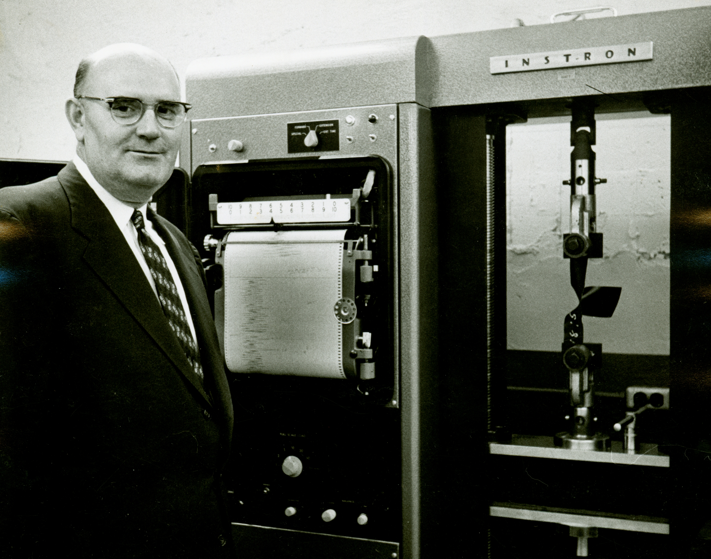 Georgia Tech Research Institute Researcher James L. Taylor and an Instron testing device, which measured the strength of yams and fibers and automatically plotted the data, 1958.